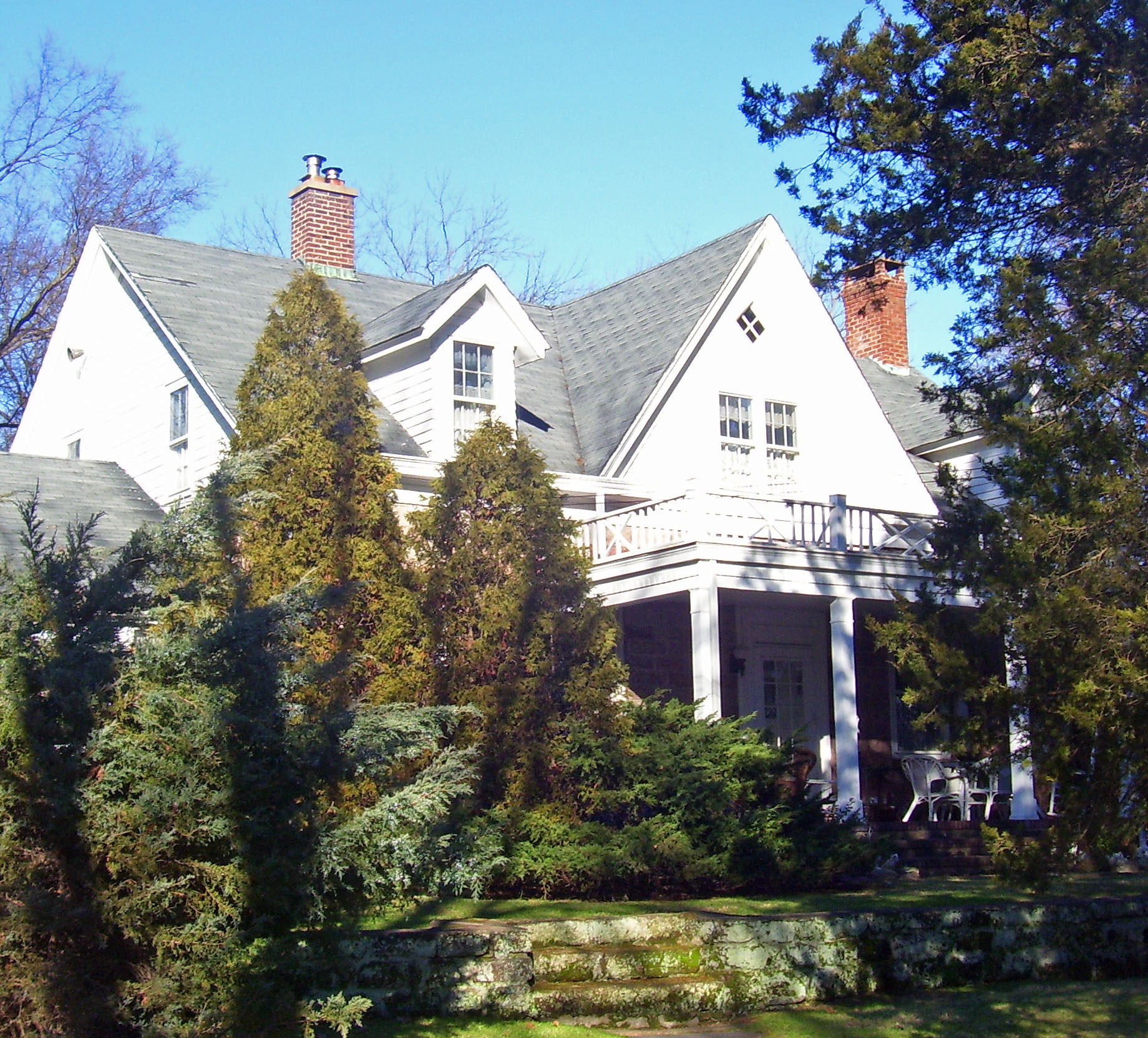 H.R. Stephens House, New City, NY, USA